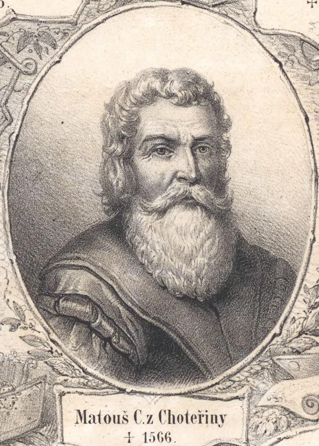 Portrait of Matouš Collinus z Chotěřiny (1516 - 1566, also known as Matthaeus Collinus), Czech writer and rector of Charles University.